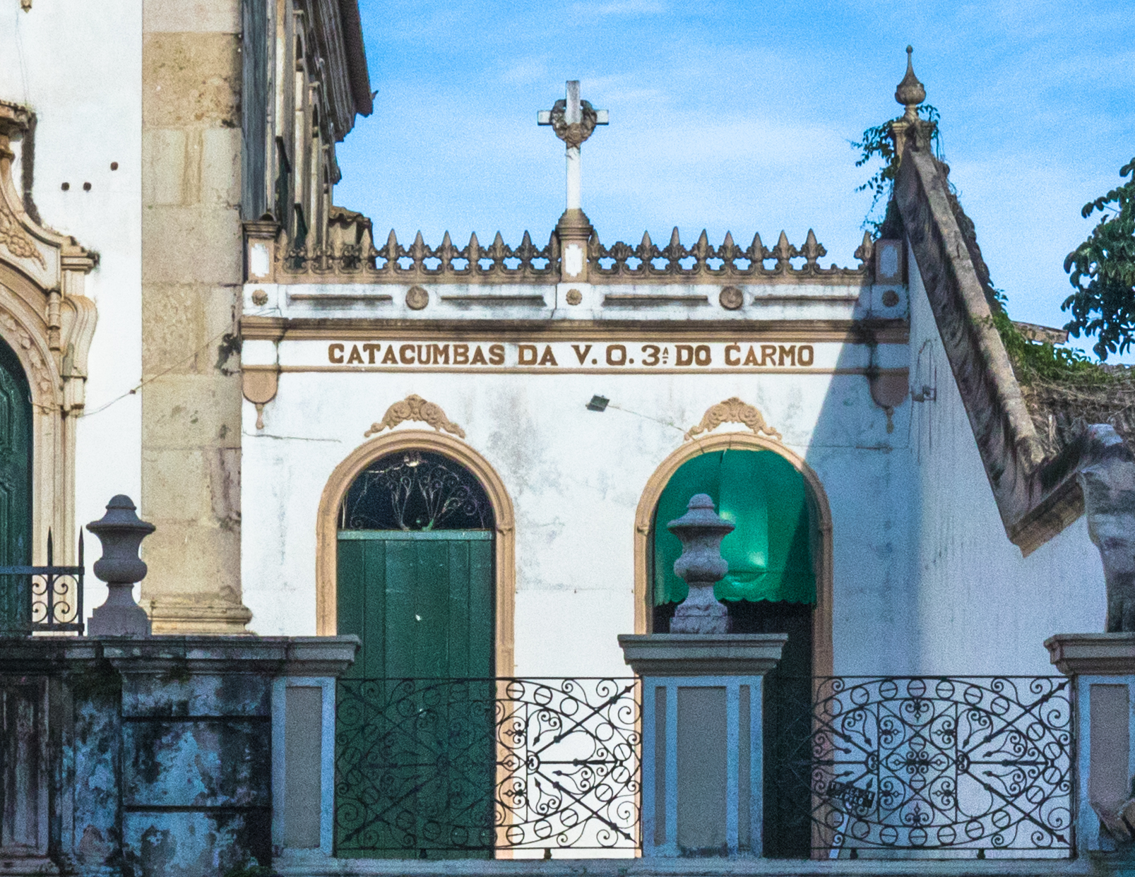 Catacombs of Igreja da Ordem Terceira do Carmo, Salvador, Bahia.